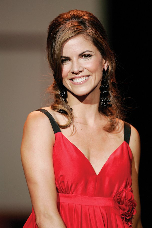 Journalist Natalie Morales at the 2007 Red Dress Collection for The Heart Truth campaign